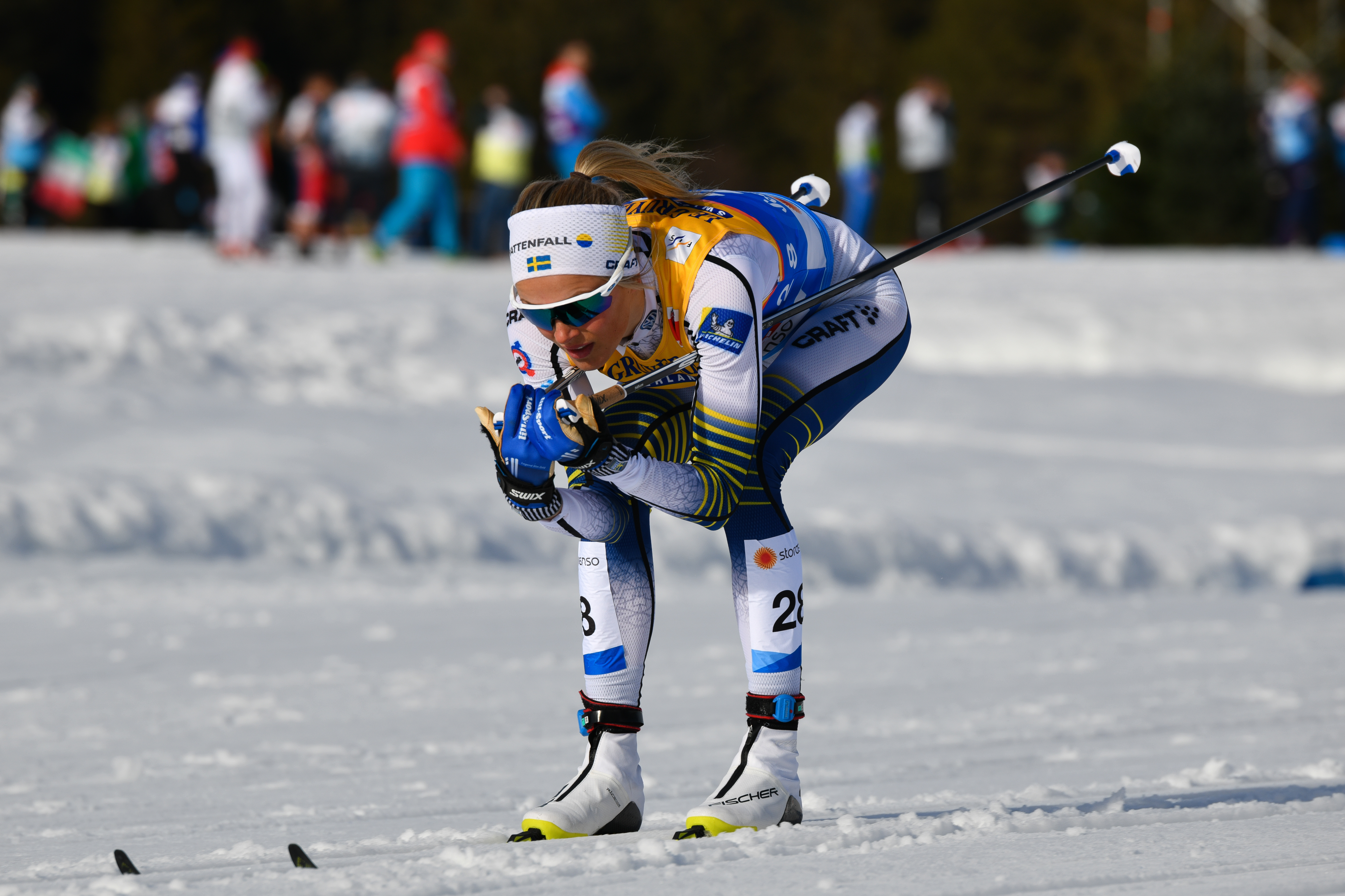 FIS Nordic Wolrd Ski Championships Seefeld 2019 - Ladies Cross Country 10km. Picture shows Frida Karlsson (SWE)